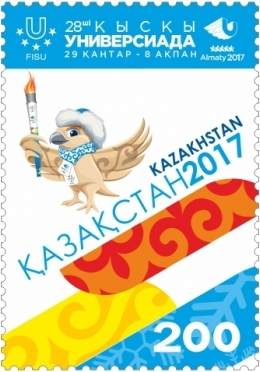 The 28th World Winter Universiade in 2017 in Almaty